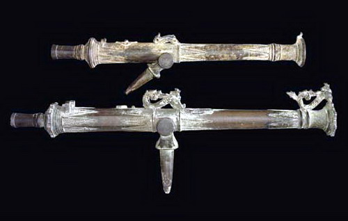 A lantaka (rentaka in Malay), a type of bronze cannon mounted on merchant vessels travelling the waterways of the Malay Archipelago. Its use was greatest in precolonial Southeast Asia, especially in the Philippines, Malaysia, and Indonesia.